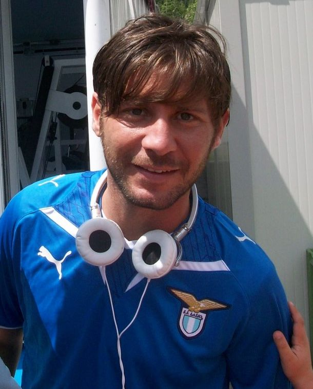 Pasquale Foggia at Auronzo di Cadore.